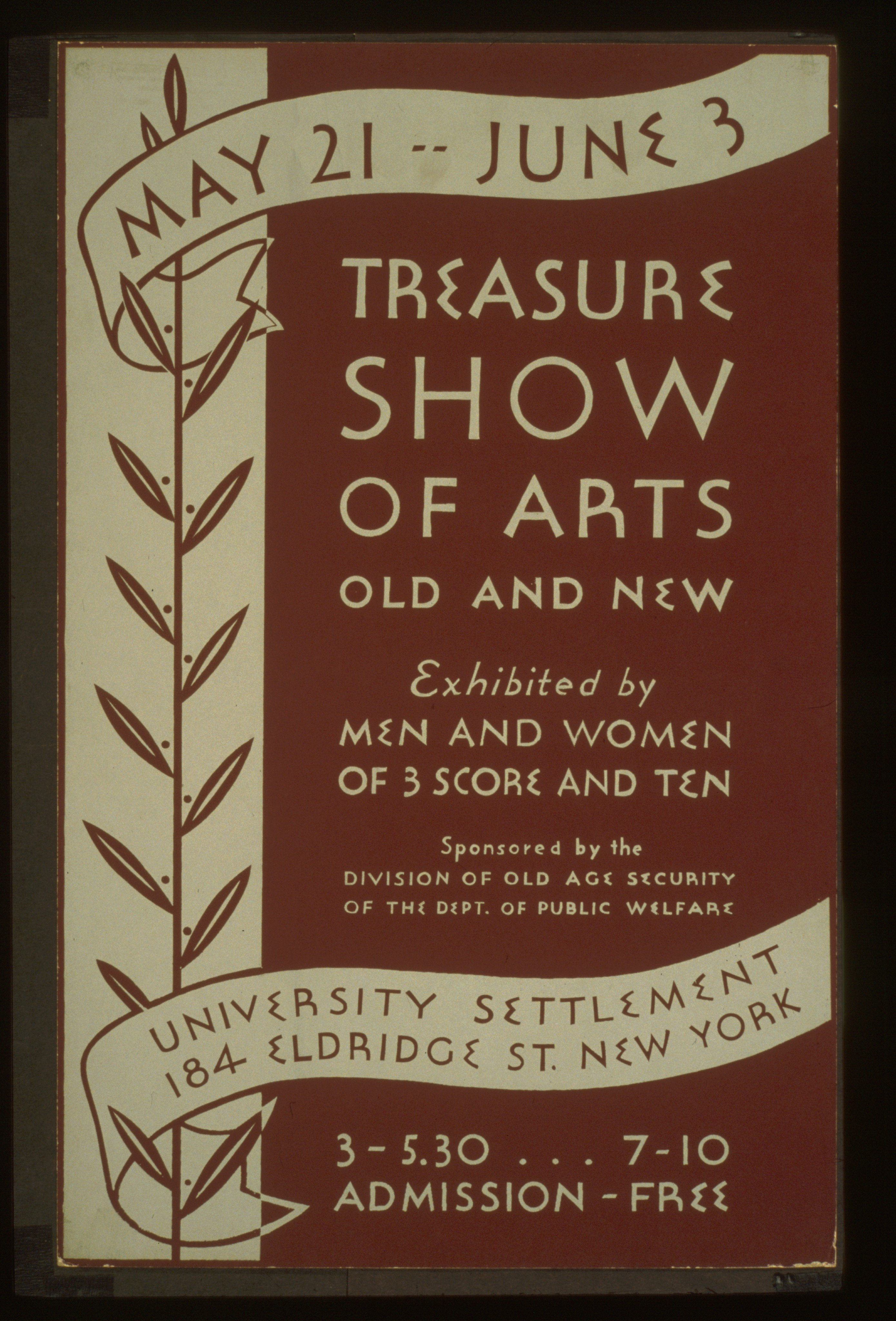 Title: Treasure show of arts old and new Abstract: Poster for exhibition of art at the University Settlement, 184 Eldridge St. New York City. Physical description: 1 print on board (poster) : silkscreen, color. Notes: Work Projects Administration Poster Collection (Library of Congress).; Sponsored by the Division of Old Age Security of the Dept. of Public Welfare.; Date stamped on verso: Apr 16 1937.